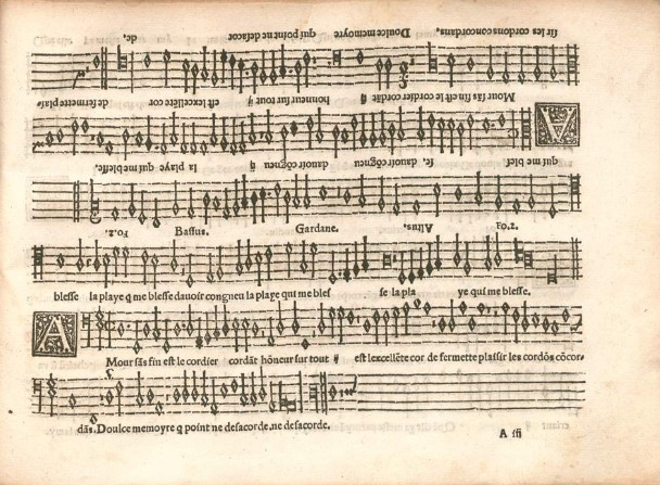 One page of Jacques Moderne's "Parangon des chansons".